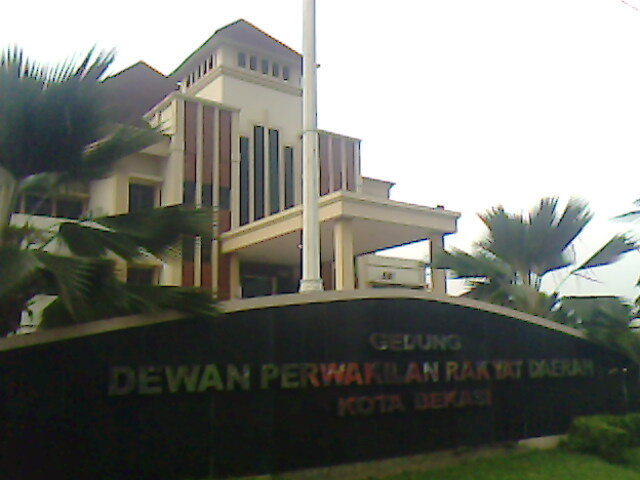 Bekasi City regional assembly building